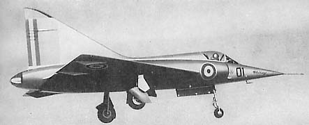 The French Dassault Mirage I in flight. This first prototype of the Mystère-Delta, without afterburning engine or rocket motor and with an unusually large vertical stabilizer, flew on 25 June 1955.